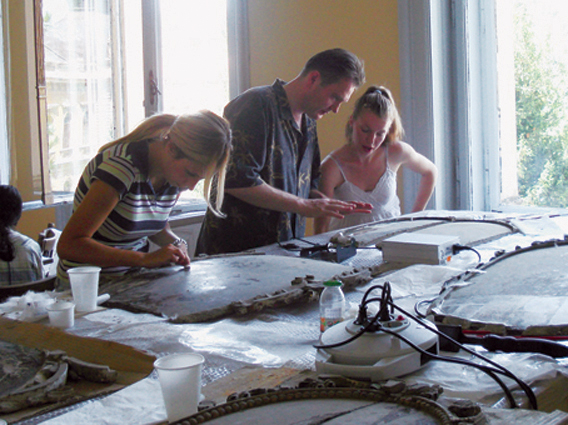 Бобров Ф.Ю со студентами. 2010 г.